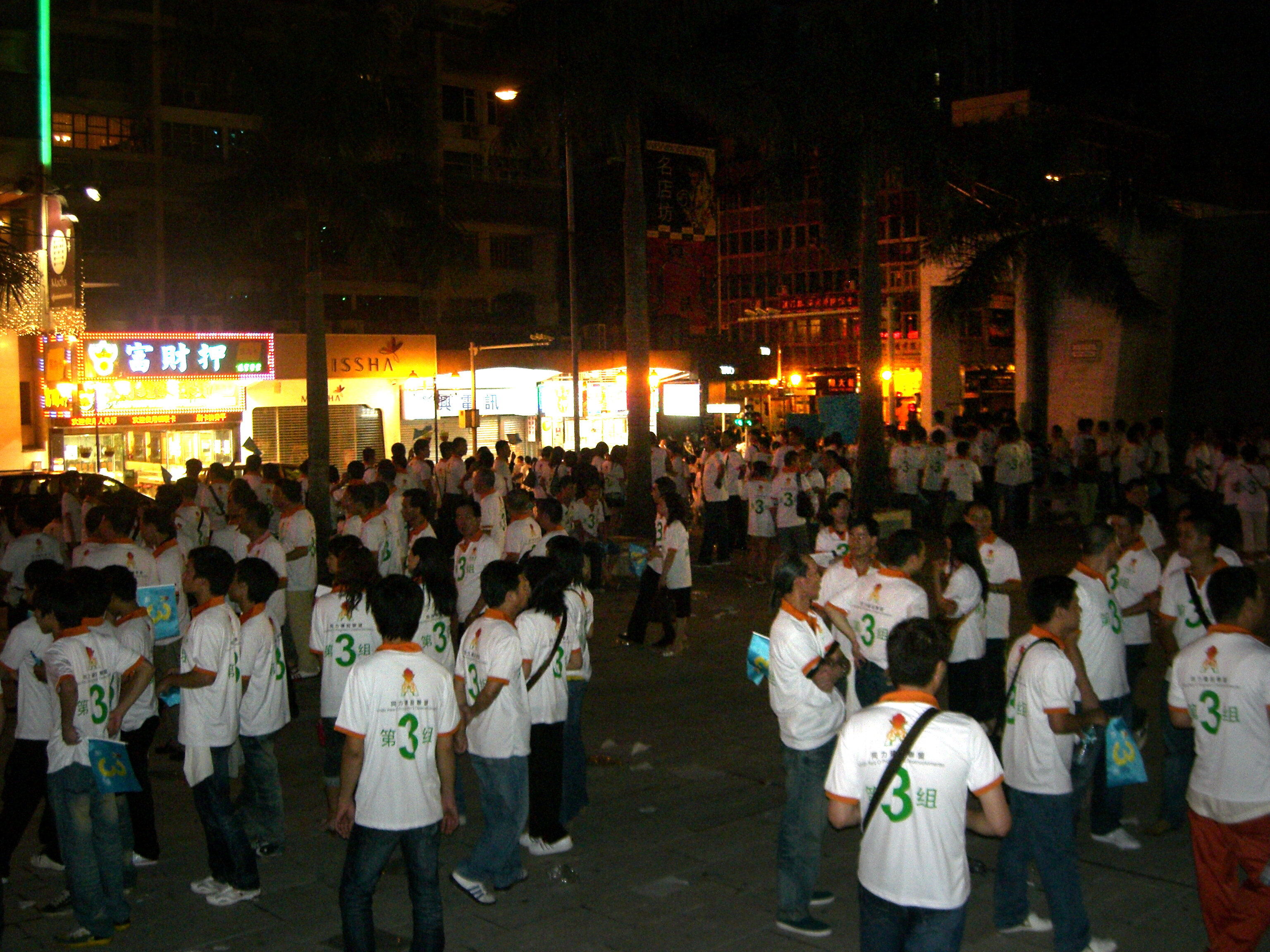 Amizade Square during the start of Promotion Period of Macanese Legislative Election 2009